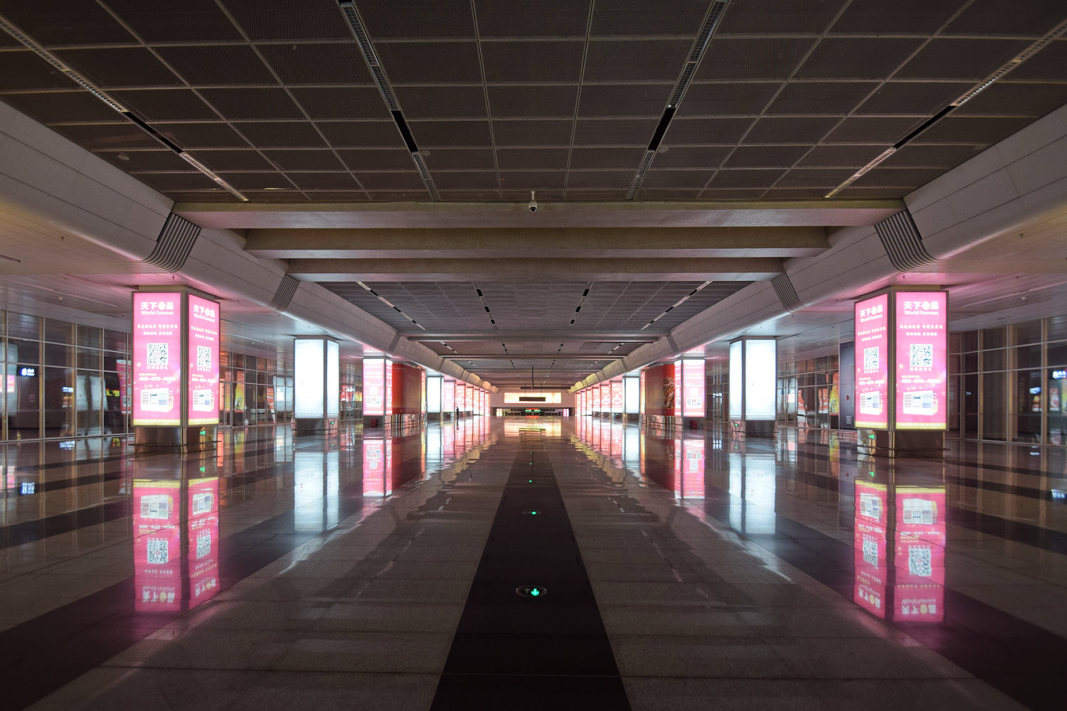 Arrival Concourse of Shenyang Nan (South) Railway Station